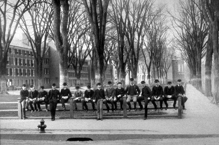 Yale students sit on the Yale Fence along Chapel Street, at its corner with College Street